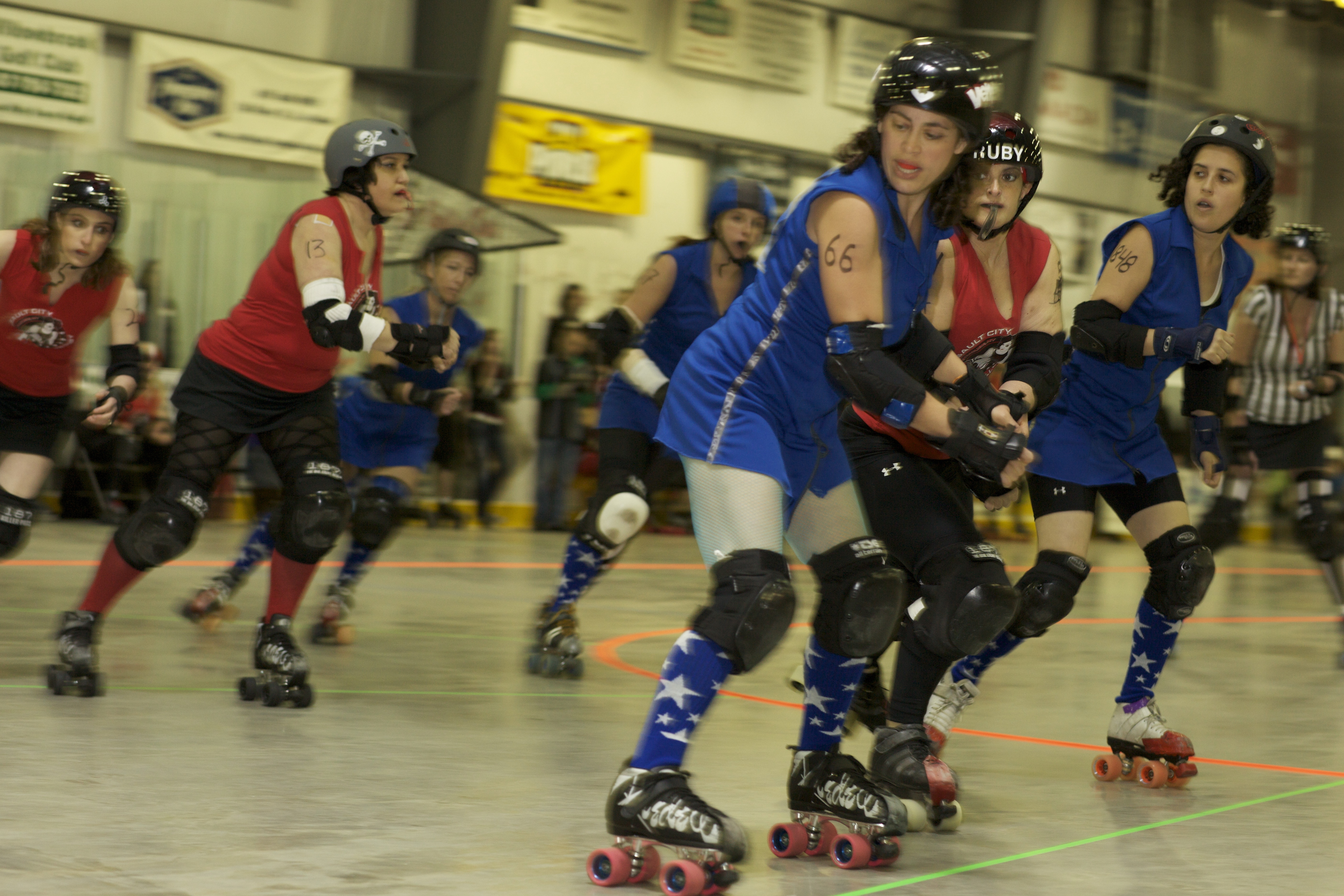 Players on the BlueStockings team take on Assault City. Photo dated 4/17/10.